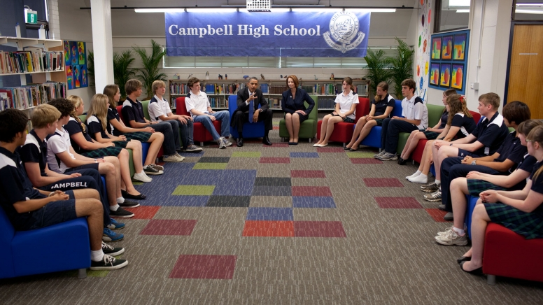 United States President Barack Obama and Australian Prime Minister Julia Gillard speak to students at Campbell High School in Canberra